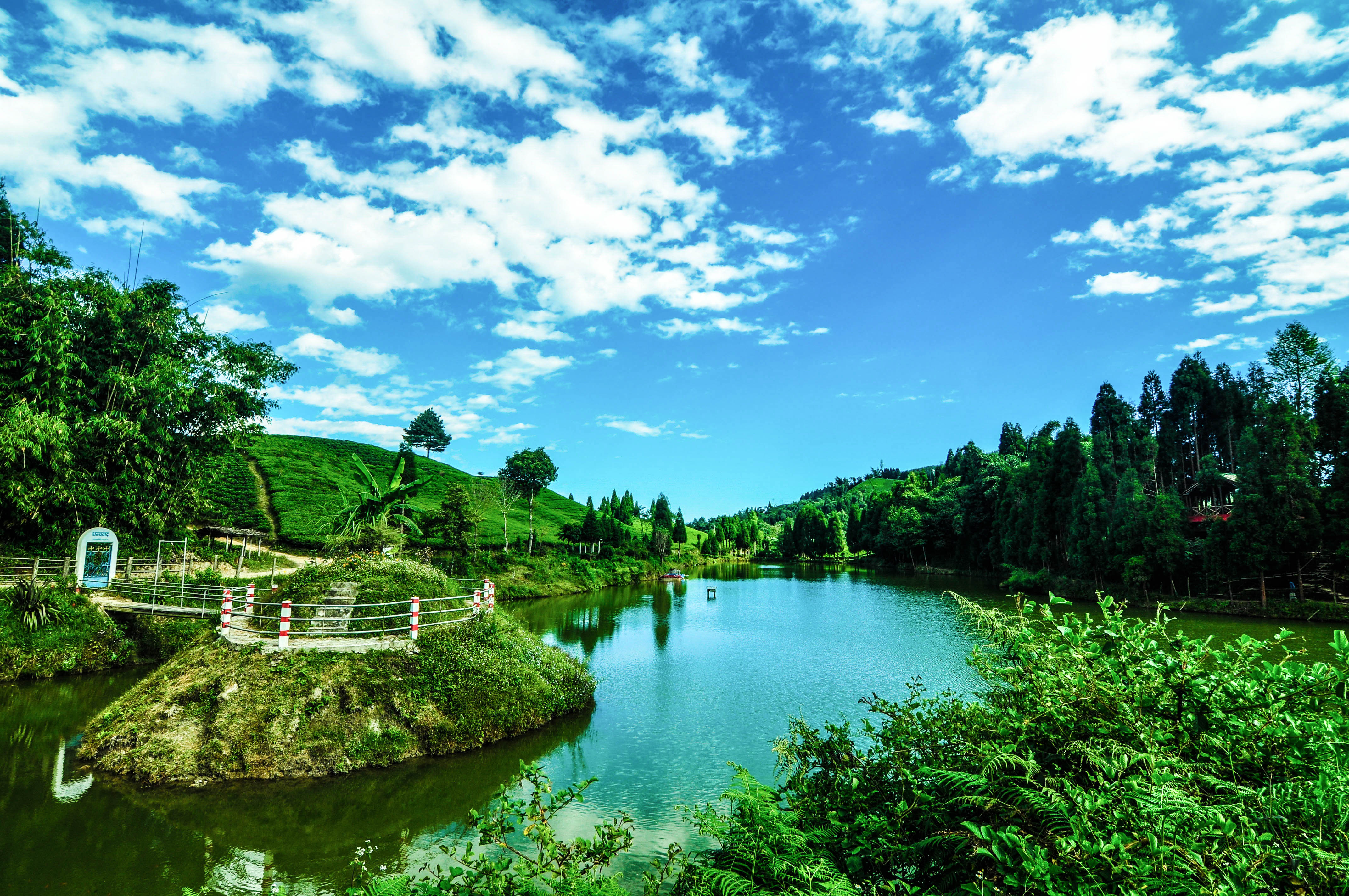 antu pokhari at antu dada ilam nepal